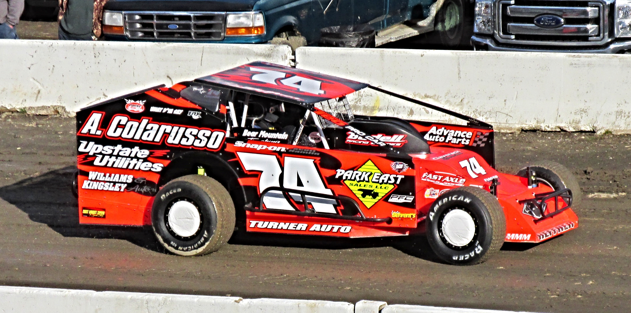 The modified race car # 74 of J.R. Heffner at the Hard Clay Open 4/11/15 held at the Orange County (NY) Fairgrounds.